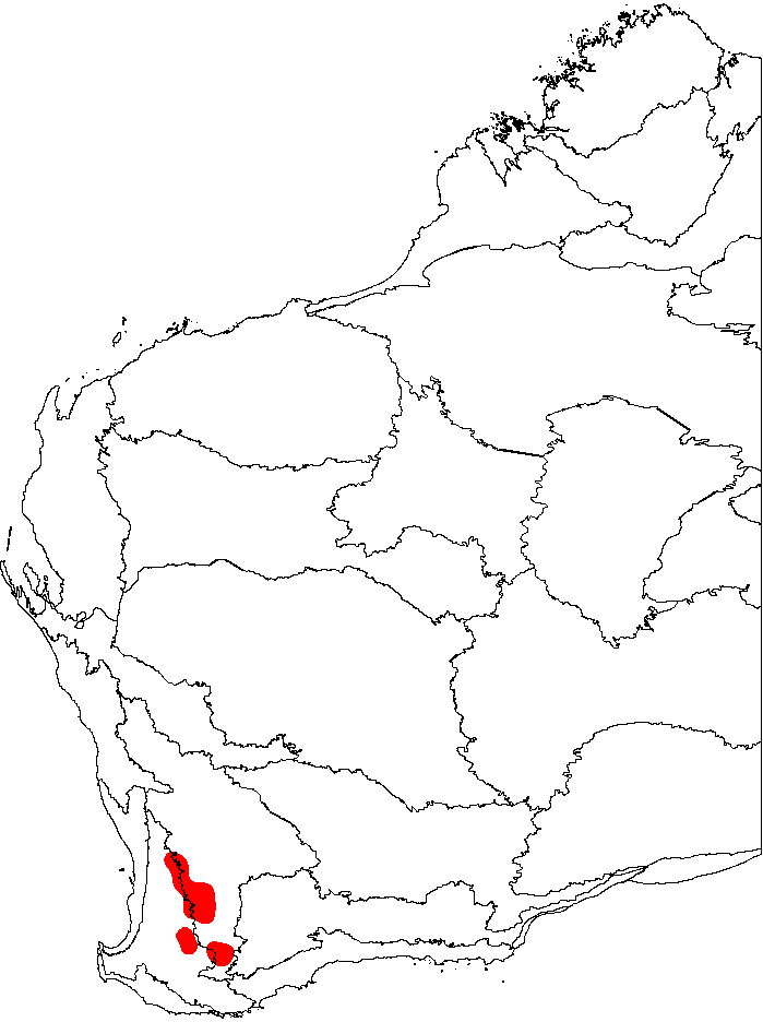 This is a map of Western Australia, showing the distribution of Banksia stuposa superimposed on a background of the IBRA 6.1 biogeographic regions.